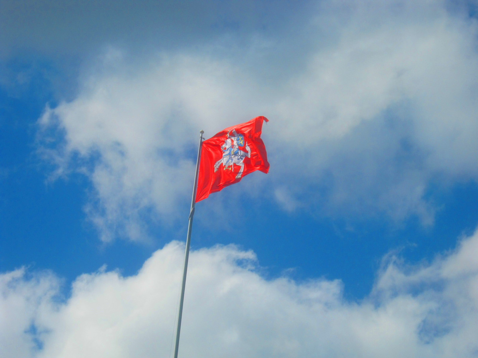 State flag of Lithuania